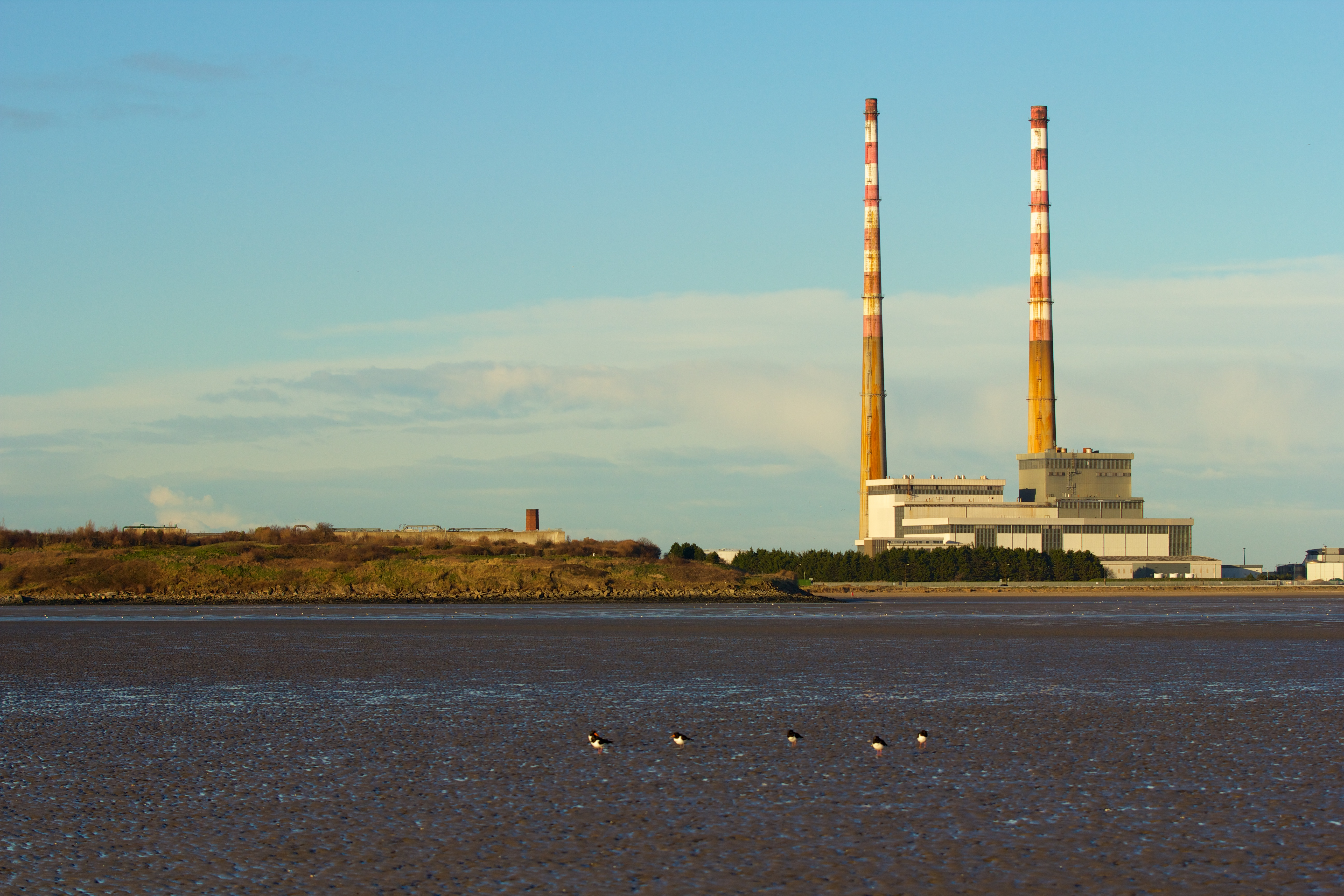 Poolbeg Generating Station in Ringsend, Dublin, Ireland seen from Sandymount Strand